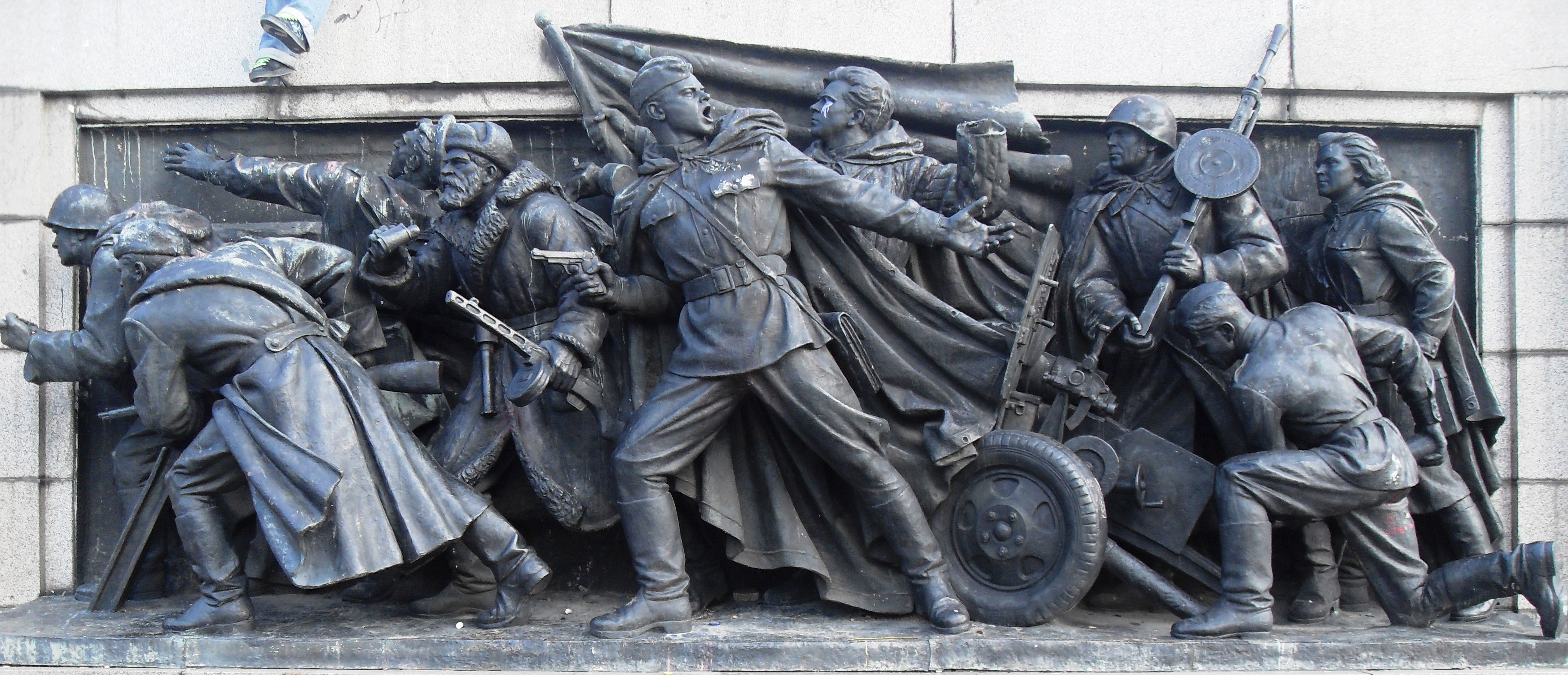 The Monument to the Soviet Army (Bulgarian: Паметник на Съветската армия, Pametnik na Savetskata armia) is a monument located in Sofia. There is a large park around the statue and the surrounding areas. It is a popular place where many young people gather. The monument is located on Tsar Osvoboditel Boulevard, near Orlov Most and the Sofia University. It represents a soldier from the Soviet Army, surrounded by a woman and a man from Bulgaria. There are other, secondary sculptural compositions part of the memorial complex around the main monument. The monument was built in 1954.